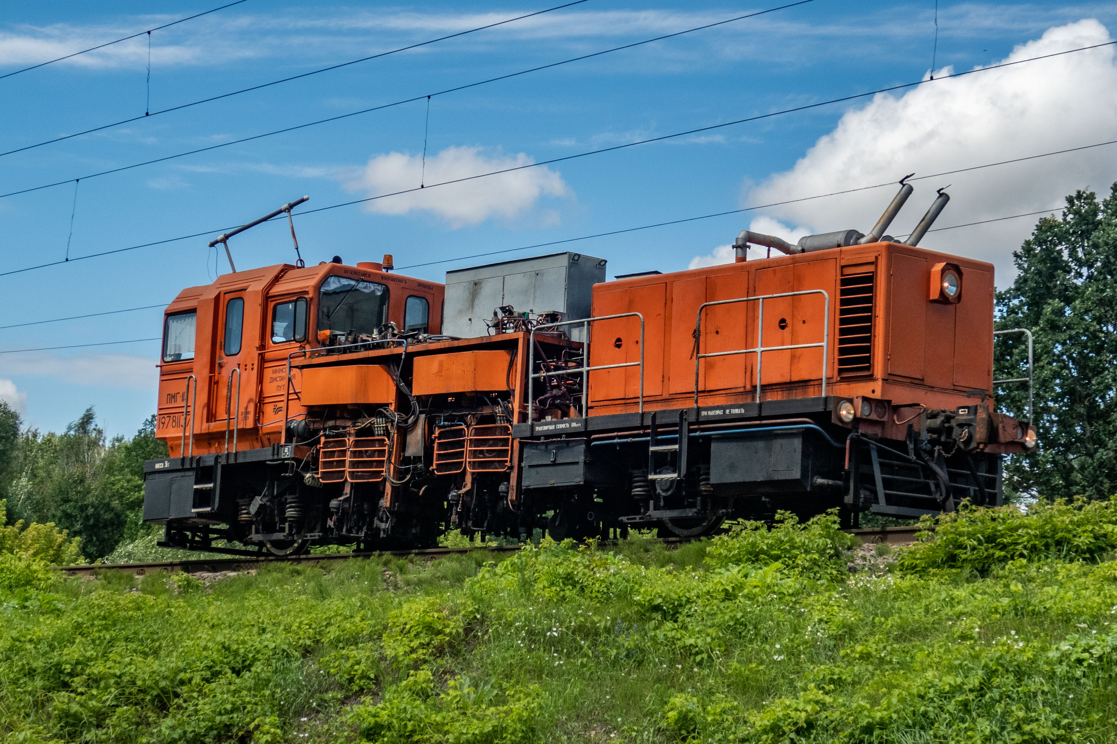 Special train PMG-113. Minsk district, Belarus